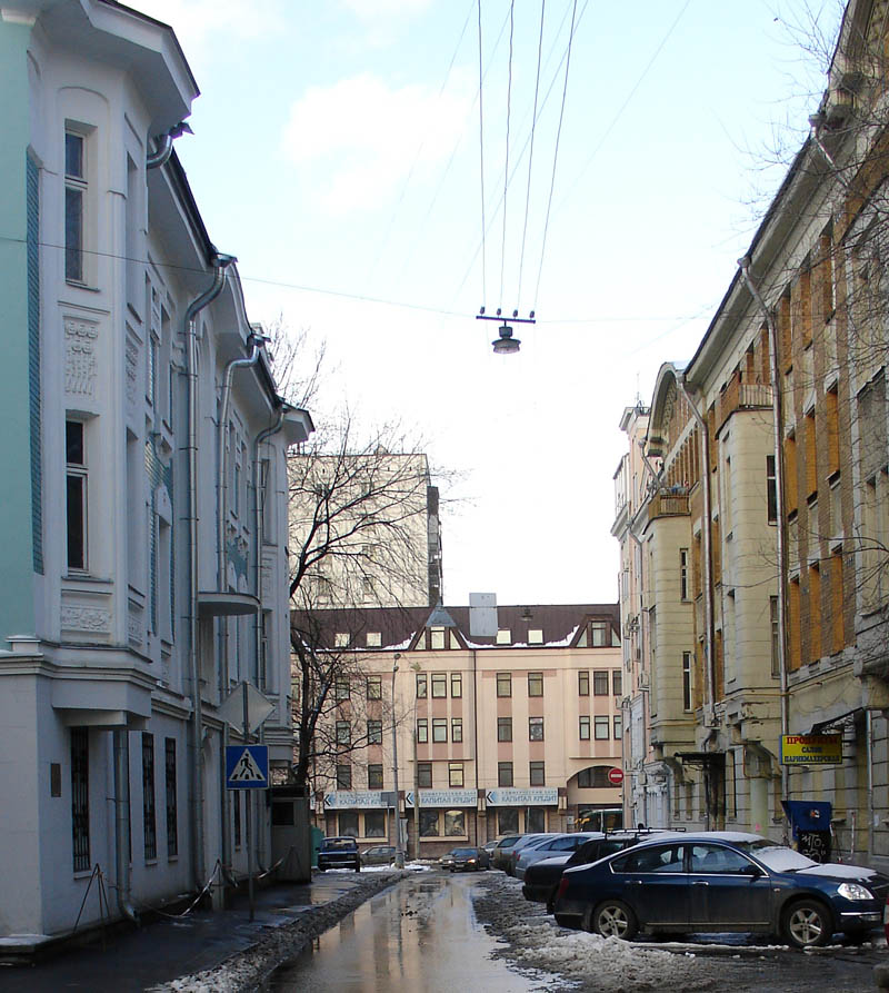 22 Meshchanskaya Street, Moscow